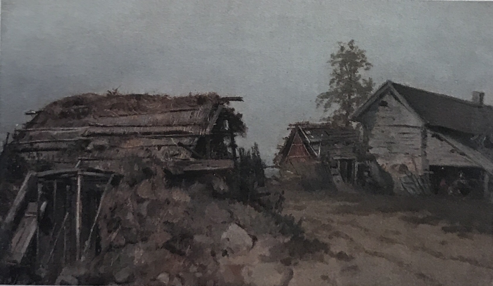 Backyards (painting, attributed to Fyodor Vasilyev, 1860s-1870s)